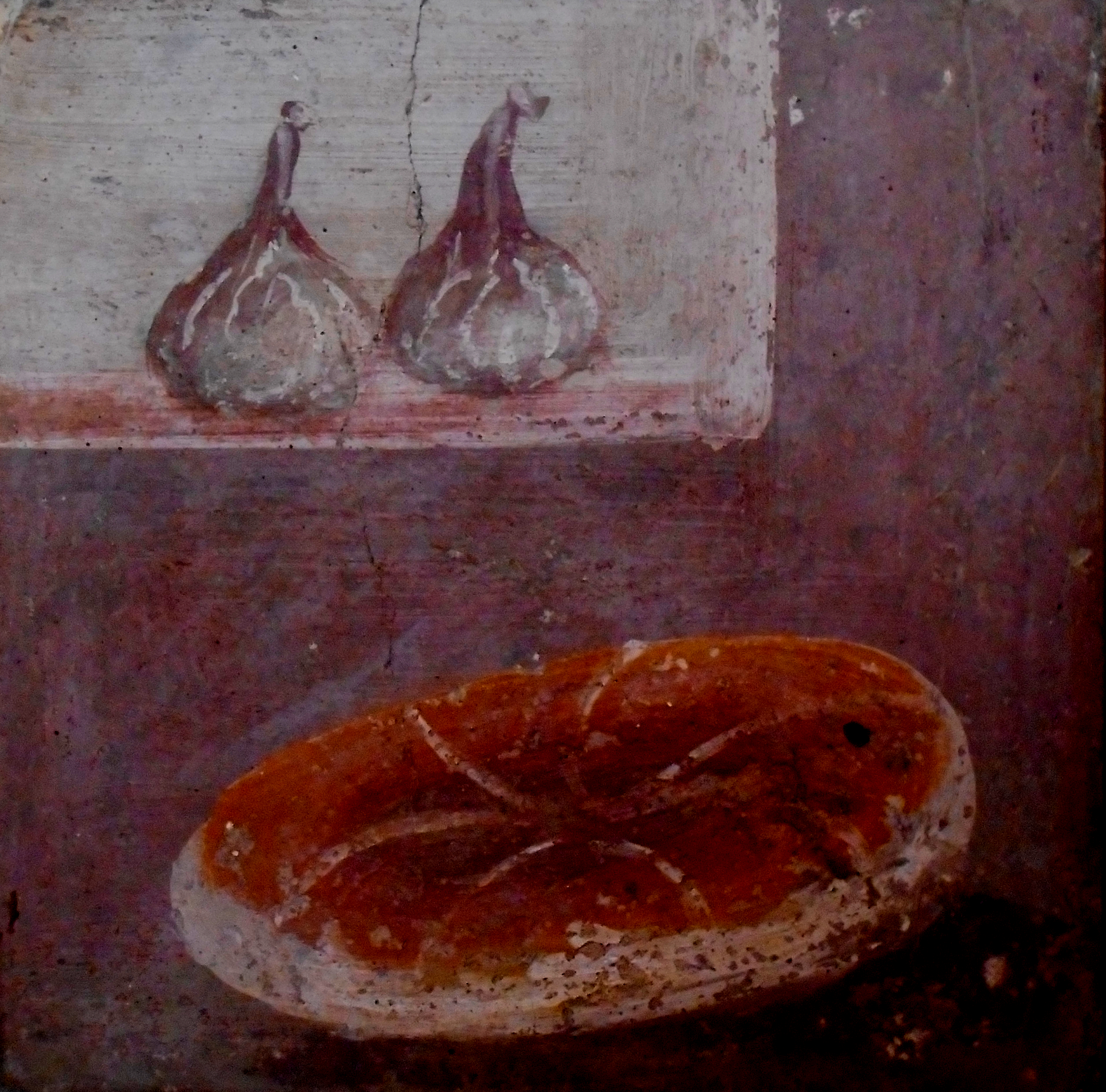 Two figs and a loaf of bread, the most modest and frugal of foods - wall painting from Herculaneum, buried by Vesuvius' eruption on 79 AD